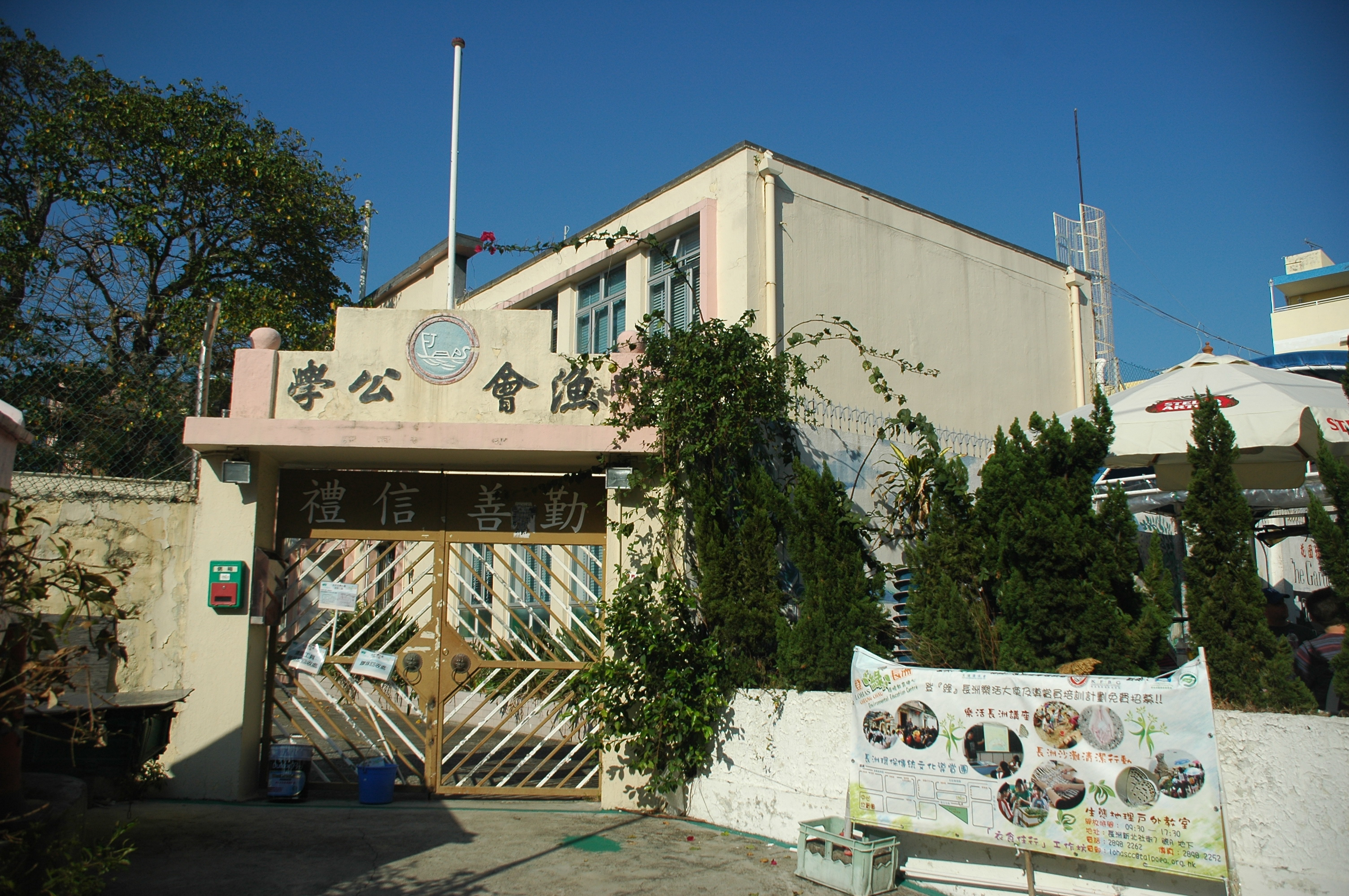 Cheung Chau Fisheries Joint Association Public School, Tung Wan Road, Cheung Chau, New Territories, Hong Kong.